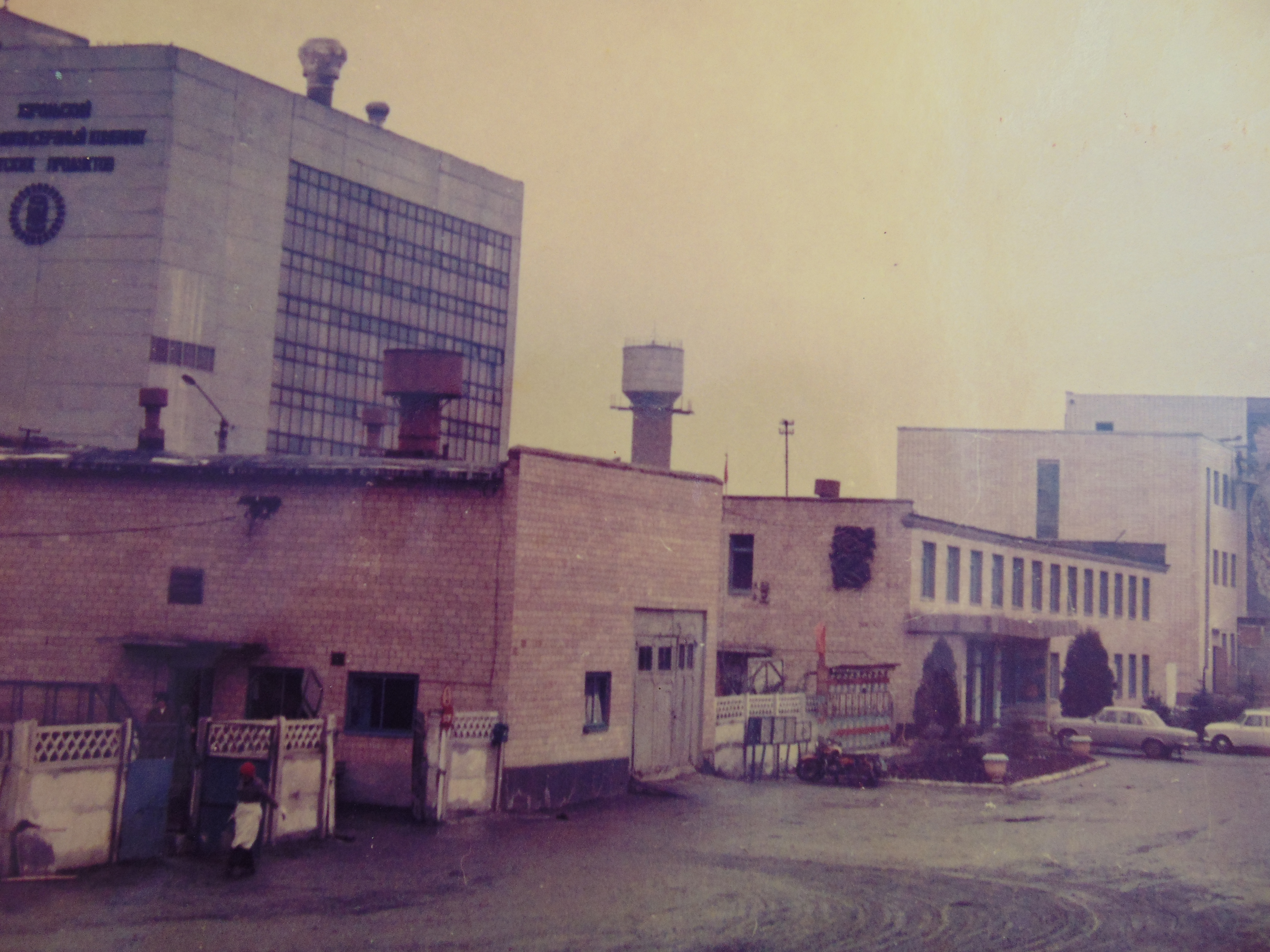 Панорамний вид на комбінат. 1981 рік